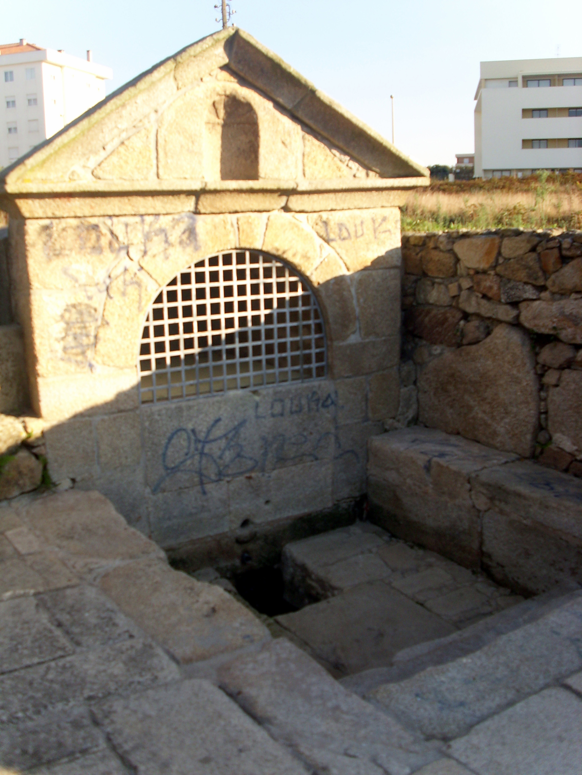 Historic Bica Fountain/Spring, Coelheiro Neighbourhood, Póvoa de Varzim, Portugal